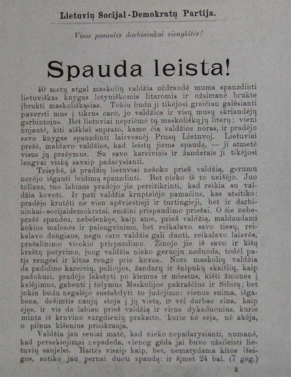 Proclamation issued in 1904 in regards of pres ban lift in Lithuania by Tsarist authorities. Tittle Spauda leista! reads Press is allowed!